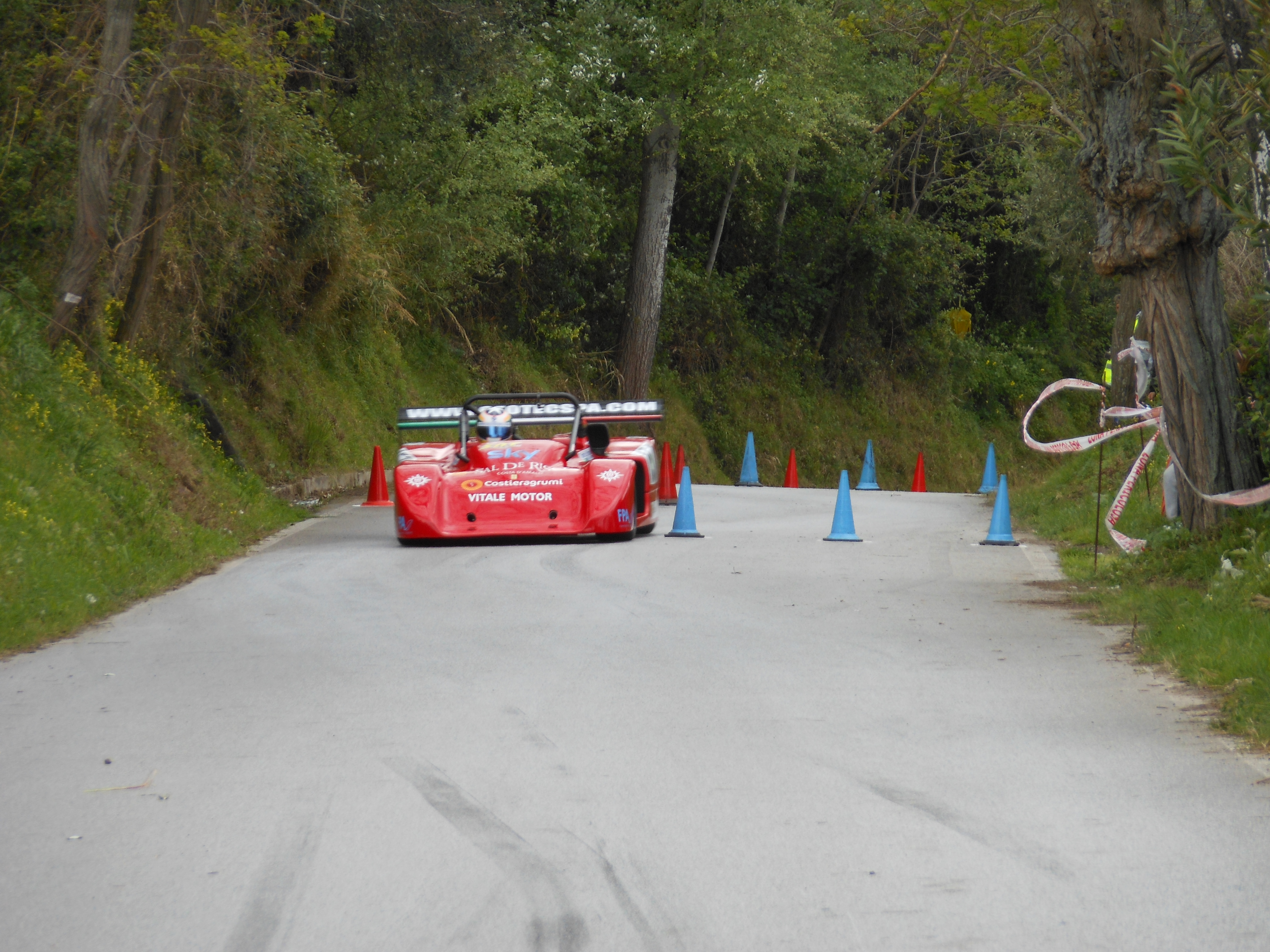 The driver Fabio Emanuele on board the Osella PA9/90 Alfa Romeo during 2013 edition of Slalom Torregrotta - Roccavaldina.